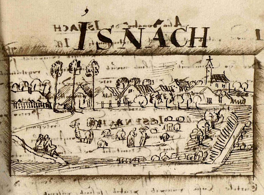 "Isnach" (today: Eisenach, Verbandsgemeinde Irrel, Eifelkreis Bitburg-Prüm) by Jean Bertels, ~1597